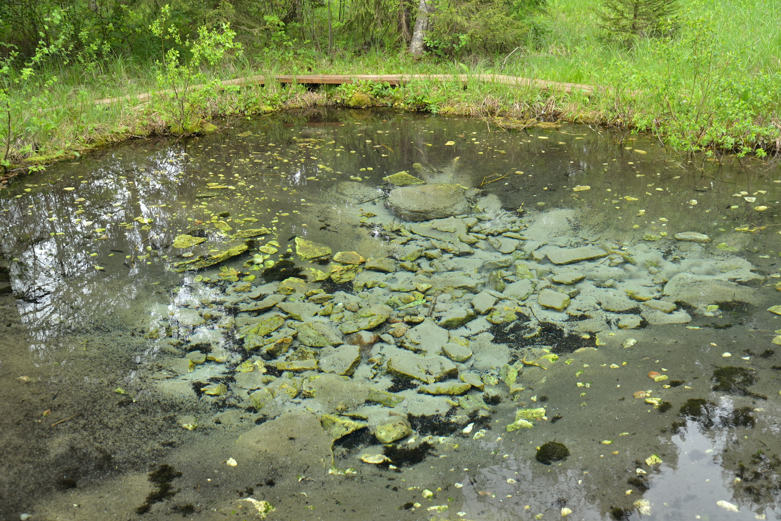 Oostriku springs